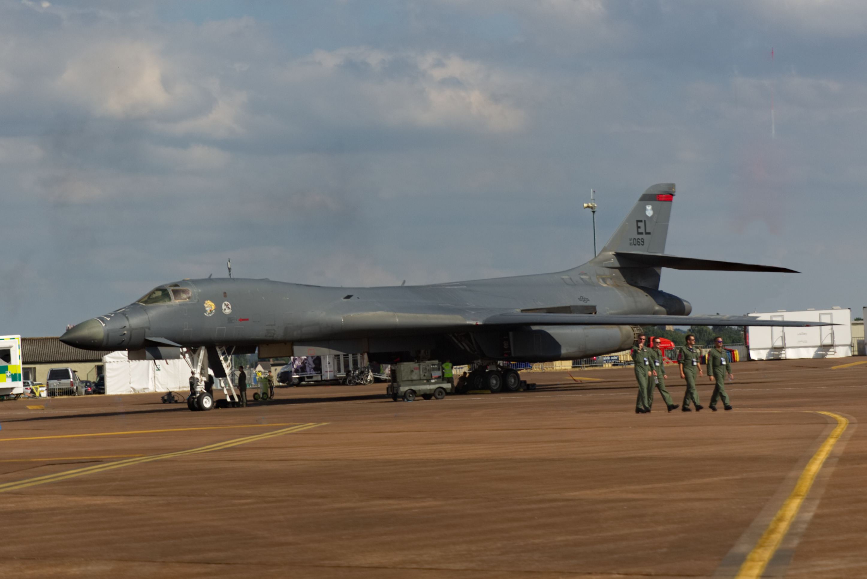 Rockwell B-1B Lancer 5D3_4071